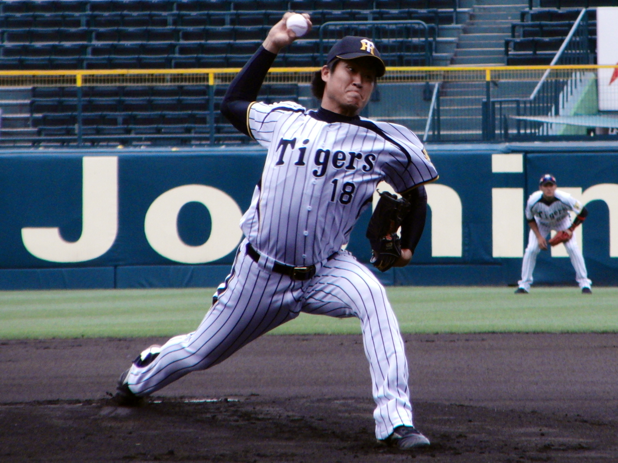 Kazuhito Futagami, pitcher of the Hanshin Tigers, at Hanshin Koshien Stadium.